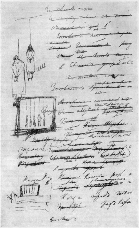 Alexander Pushkin's manuscript depicting the hanged Decembrists.